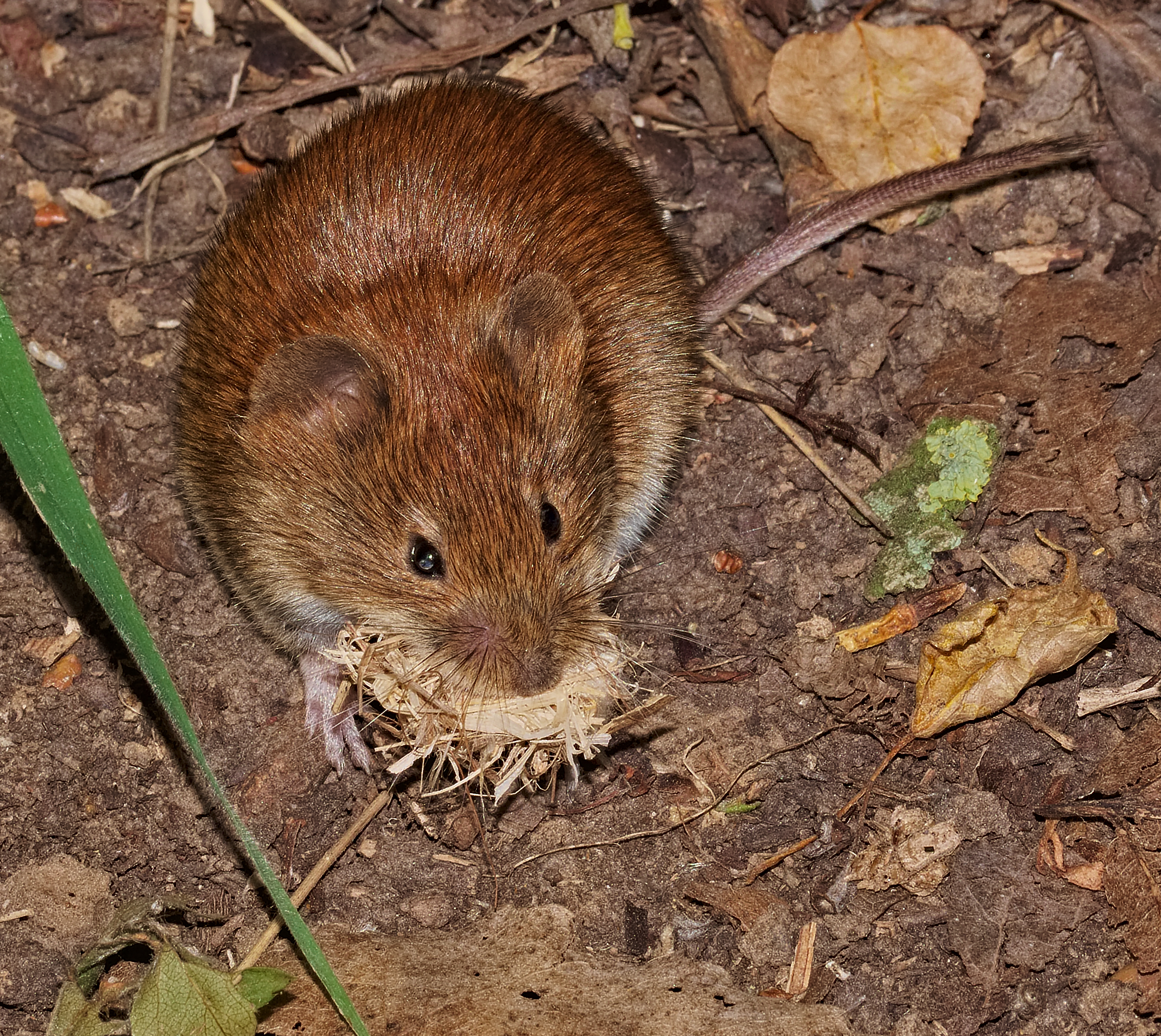 Bank vole - Myodes glareolus. Taken by the Reinheimer Teich in Reinheim, Hesse, Germany.